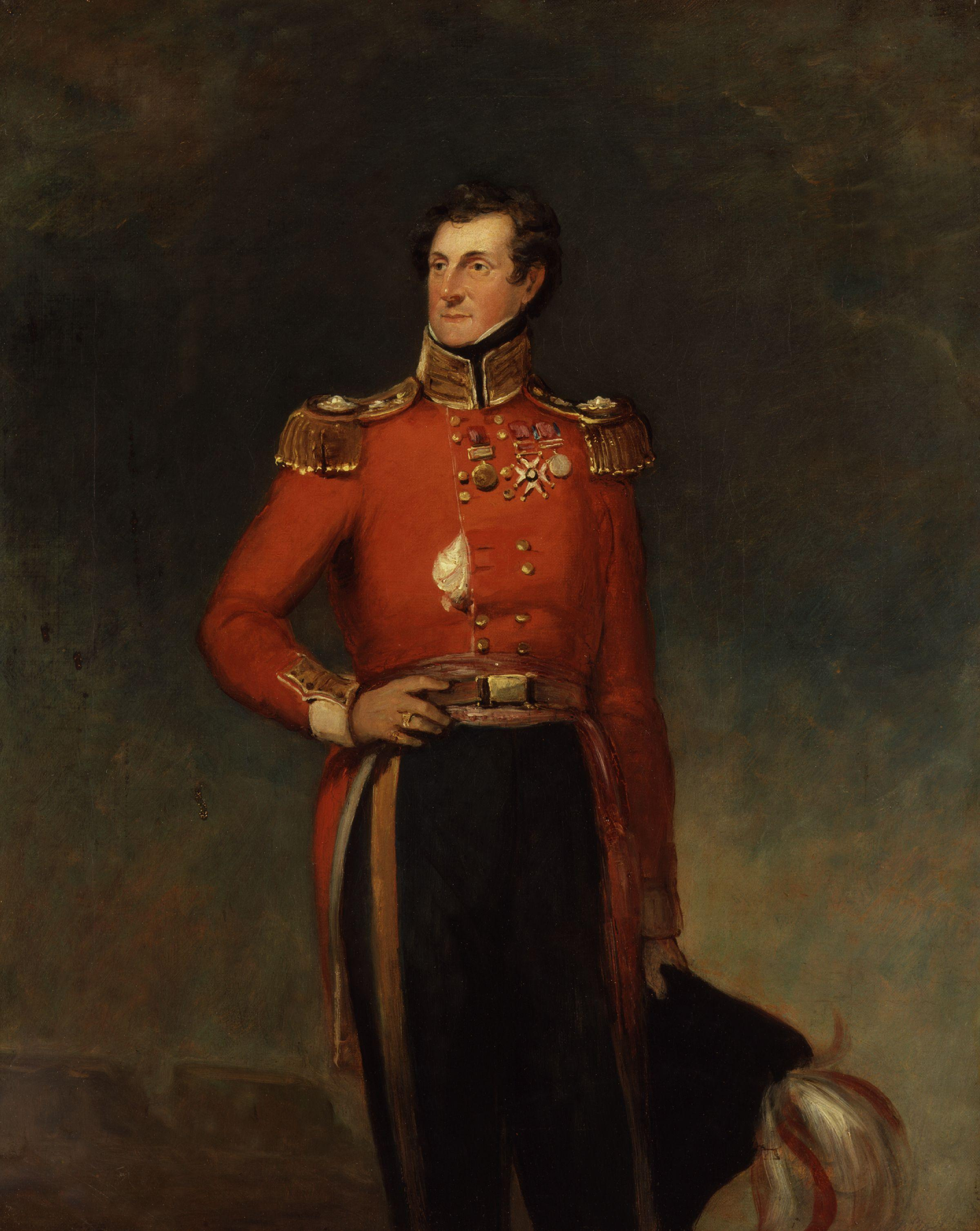 Sempronius Stretton, by William Salter (died 1875). All images in this batch have been confirmed as author died before 1939 according to the official death date listed by the NPG.